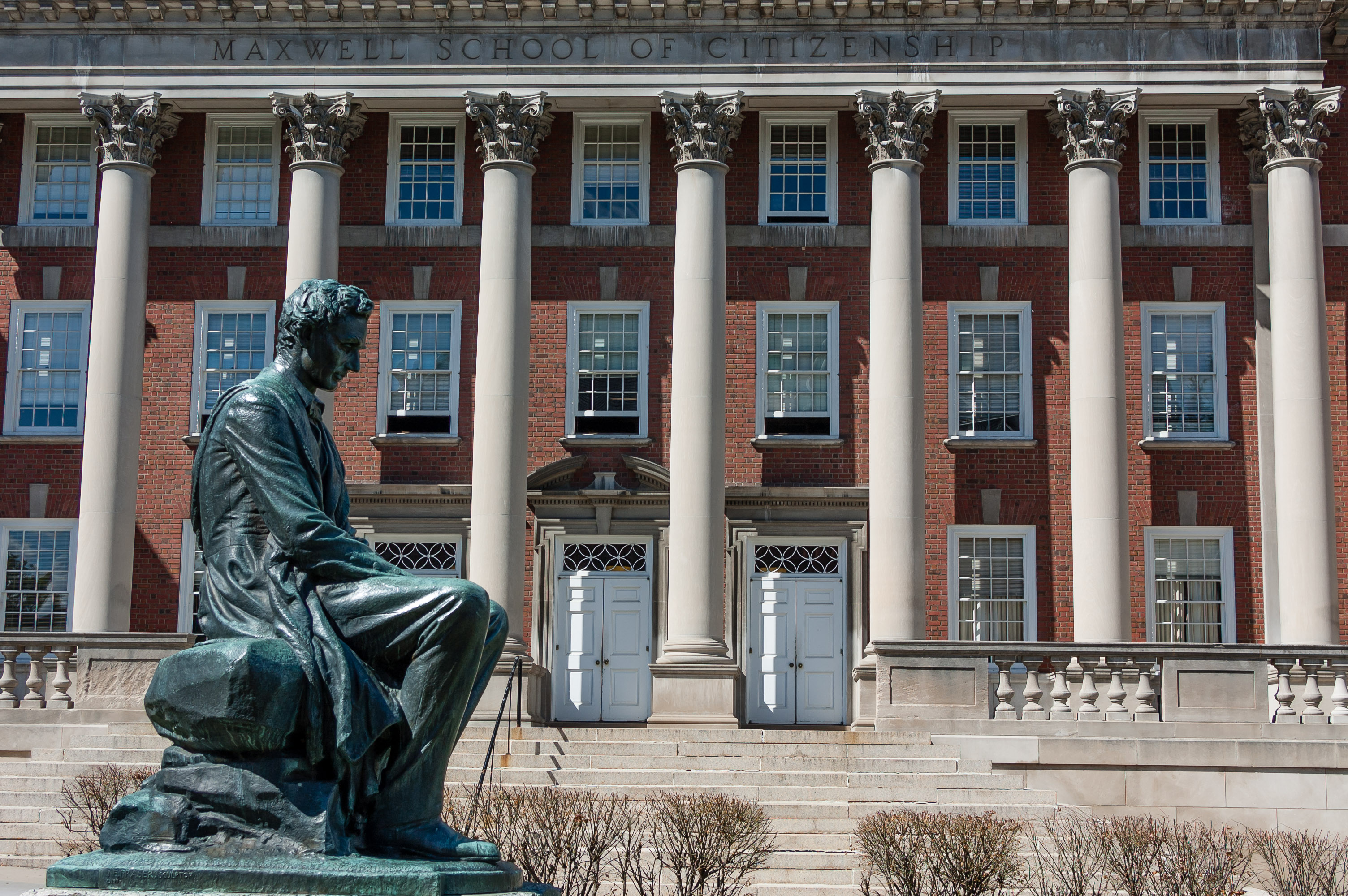 Syracuse University-Comstock Tract Buildings